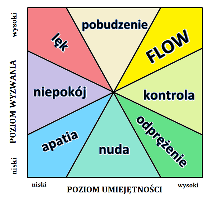 Diagram showing mental state in terms of challenge level and skill level (flow theory by Mihály Csíkszentmihályi)